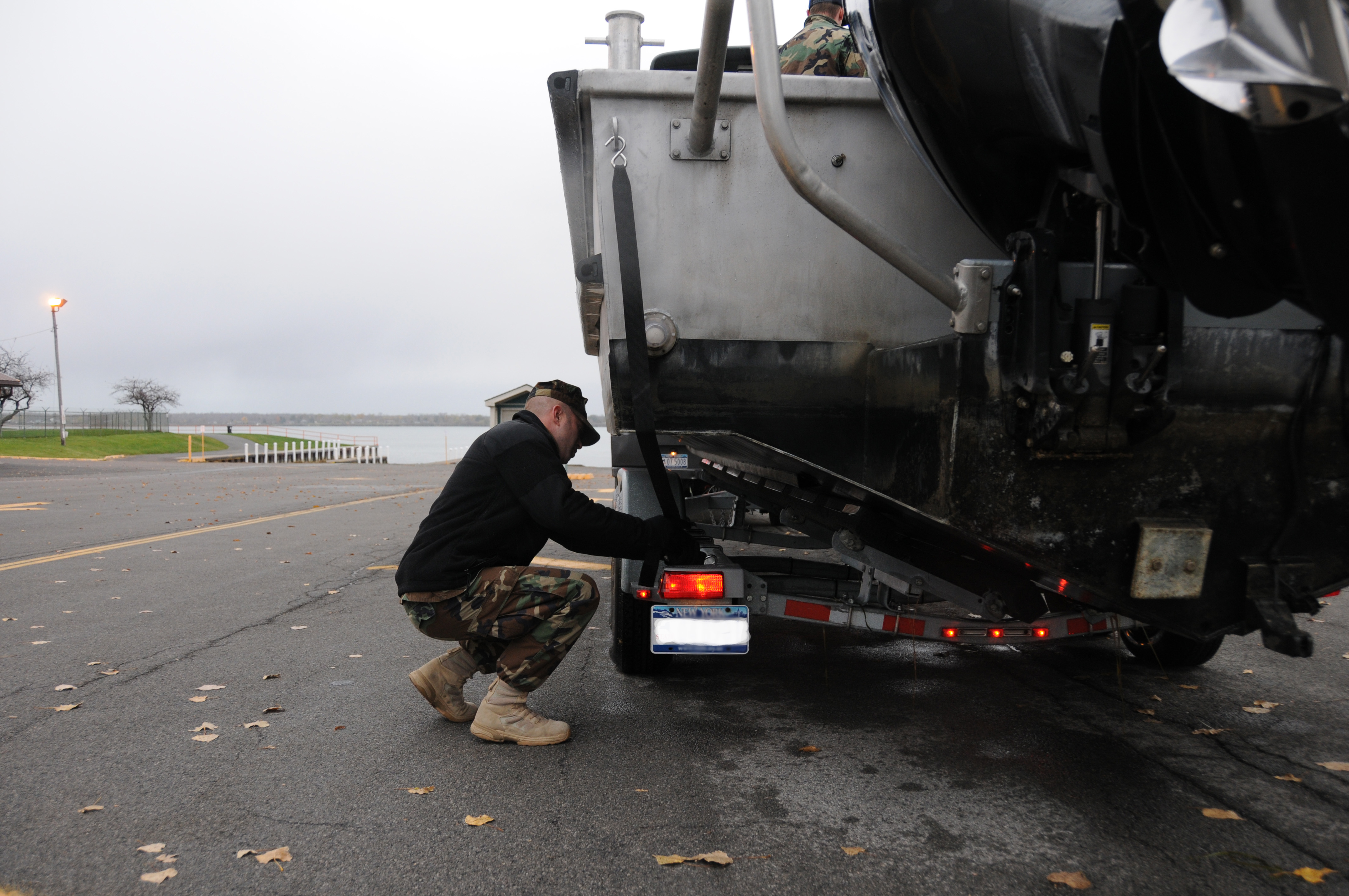 BM2 Peter Knezevic, New York Naval Militia, readies his vessel for transport. Now that the exercise is complete, the vessel will go into heated storage until the spring, when it will be ready to respond at a moments notice. Knezevic along with other NYNM members participated in a recent Vigilant Guard exercise, that enabled emergency civilian and military resopnders to work side by side with one common goal, training. (USAF Photo/Staff Sgt. Peter Dean)